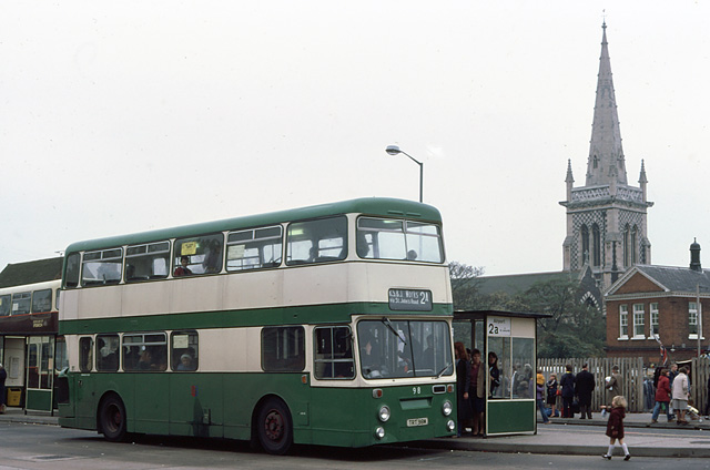 Tower Ramparts and St. Mary-le-Tower The bus station with Saturday shoppers. The little girl in the foreground appears to be doing her best dalek impression, though it's unlikely she will exterminate the bus. The view of the church in the background is now obscured by Tower Ramparts shopping centre. There appears to have been a market on this site when the photo was taken. The bus shelter for the 2a route carries the legend Airport, a piece of history in itself as Ipswich airport closed in the mid 1990's. The bus is Ipswich Borough Transport no. 98 (registration TRT 98M), a Leyland Atlantean AN68/1R built 1974 with H43/29D bodywork by Charles H. Roe